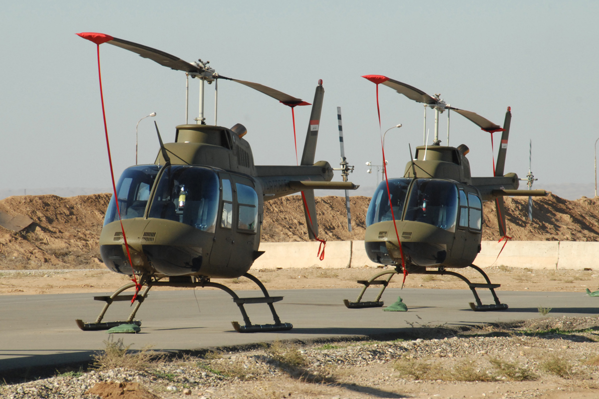 Two Bell Jet Ranger 206B helicopters sit ready after passing a Government Acceptance Inspection Dec. 4 at Kirkuk Regional Air Base, Iraq. A total of five Jet Rangers arrived here on board a C-17 Globemaster III, Dec. 3. The rotary aircraft were shipped over from the United States, where they were converted, from multiple sources such as commercial use, to military use to be used as trainers for the Iraqi Air Force. They will later be joined by five other Jet Rangers from Taji, Iraq, to help establish the Iraqi Air Force Squadron 2. According to the Security and Training Management Organization the arrival of the aircraft is another step forward for rebuilding the Iraqi Air Force and training their next generation rotary pilots. (U.S. Air Force photo Master Sgt Andrew Leonhard)